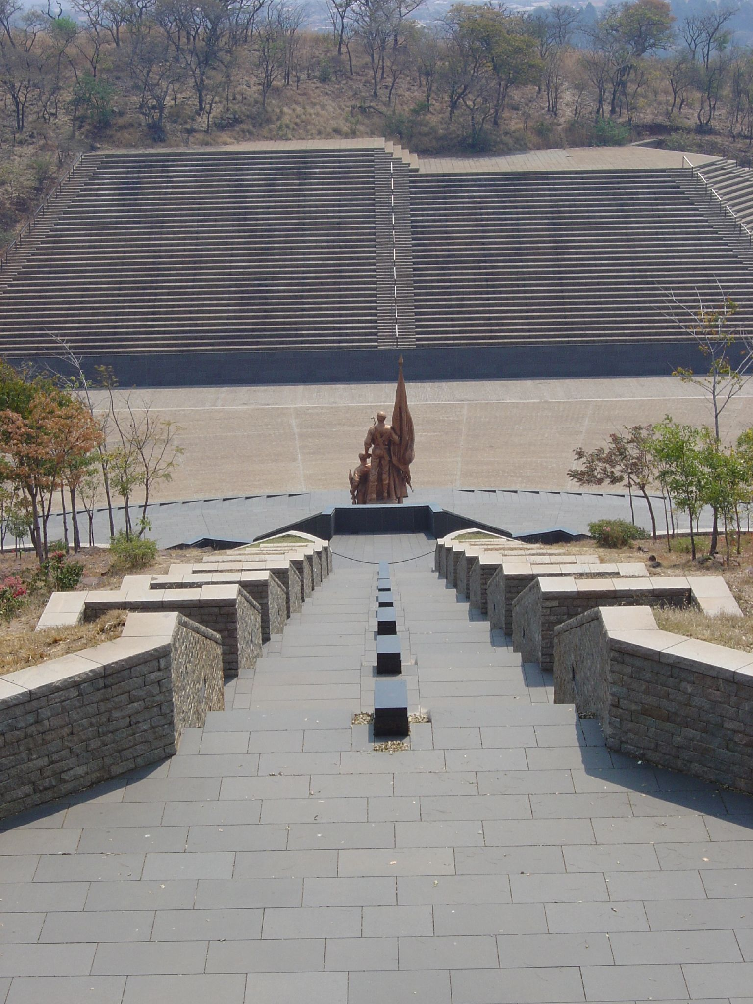 Heroes Acre, Harare, Zimbabwe